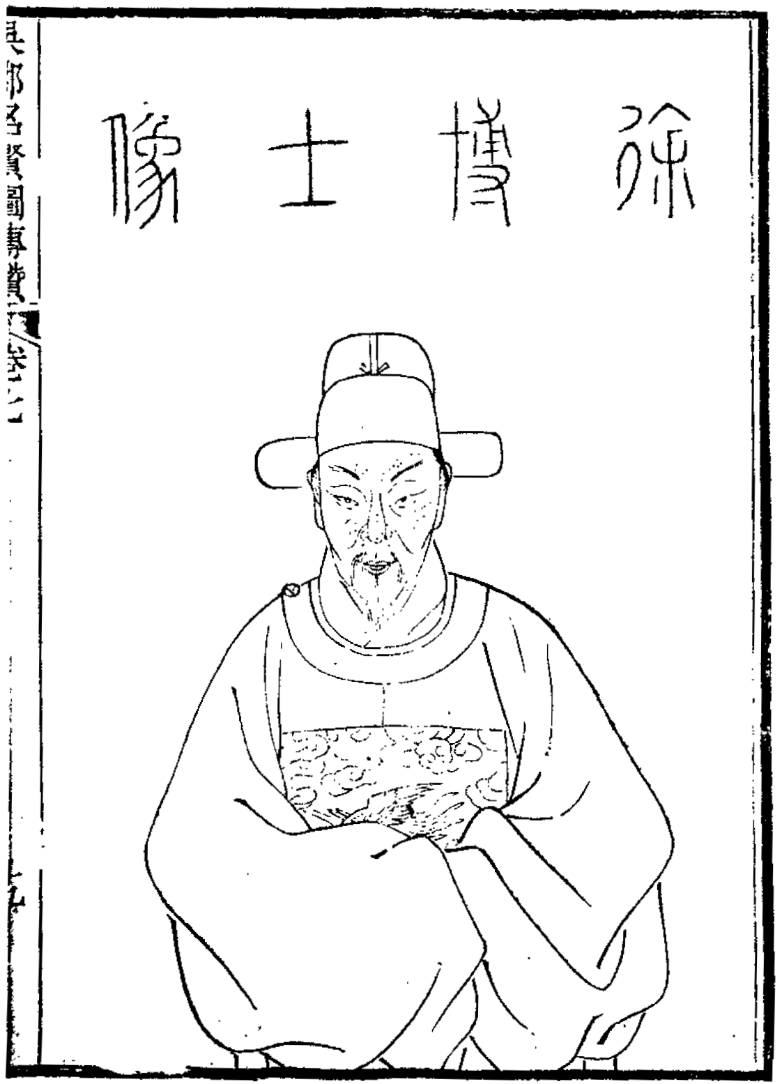 Xu Zhenqing, poet of the Ming Dynasty.